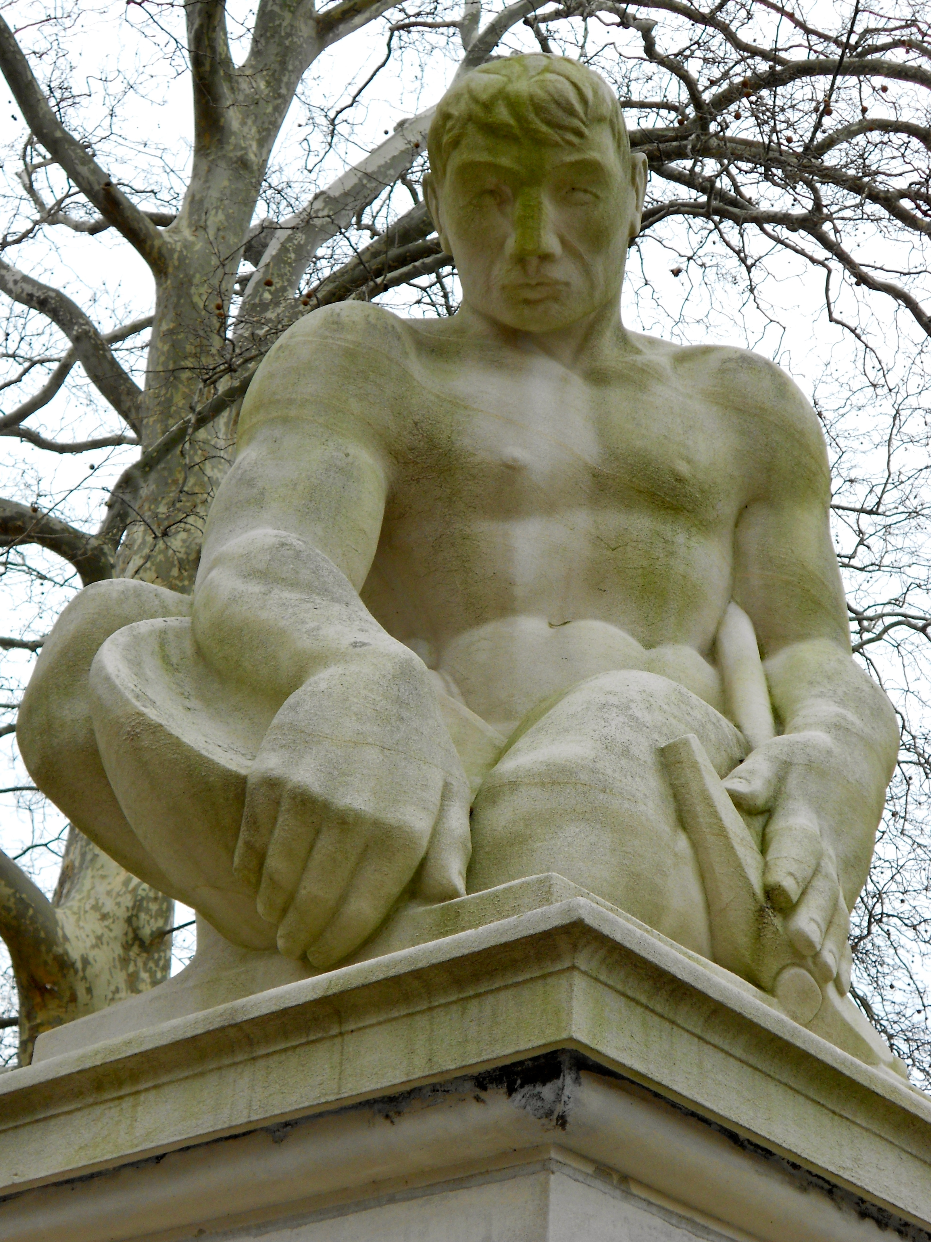 Ellen Phillips Samuel Memorial: The Miner by John Bernard Flannagan, 1938. Limestone sculpture, granite base. SIRIS reference .IAS 77002764. No visible copyright notice.